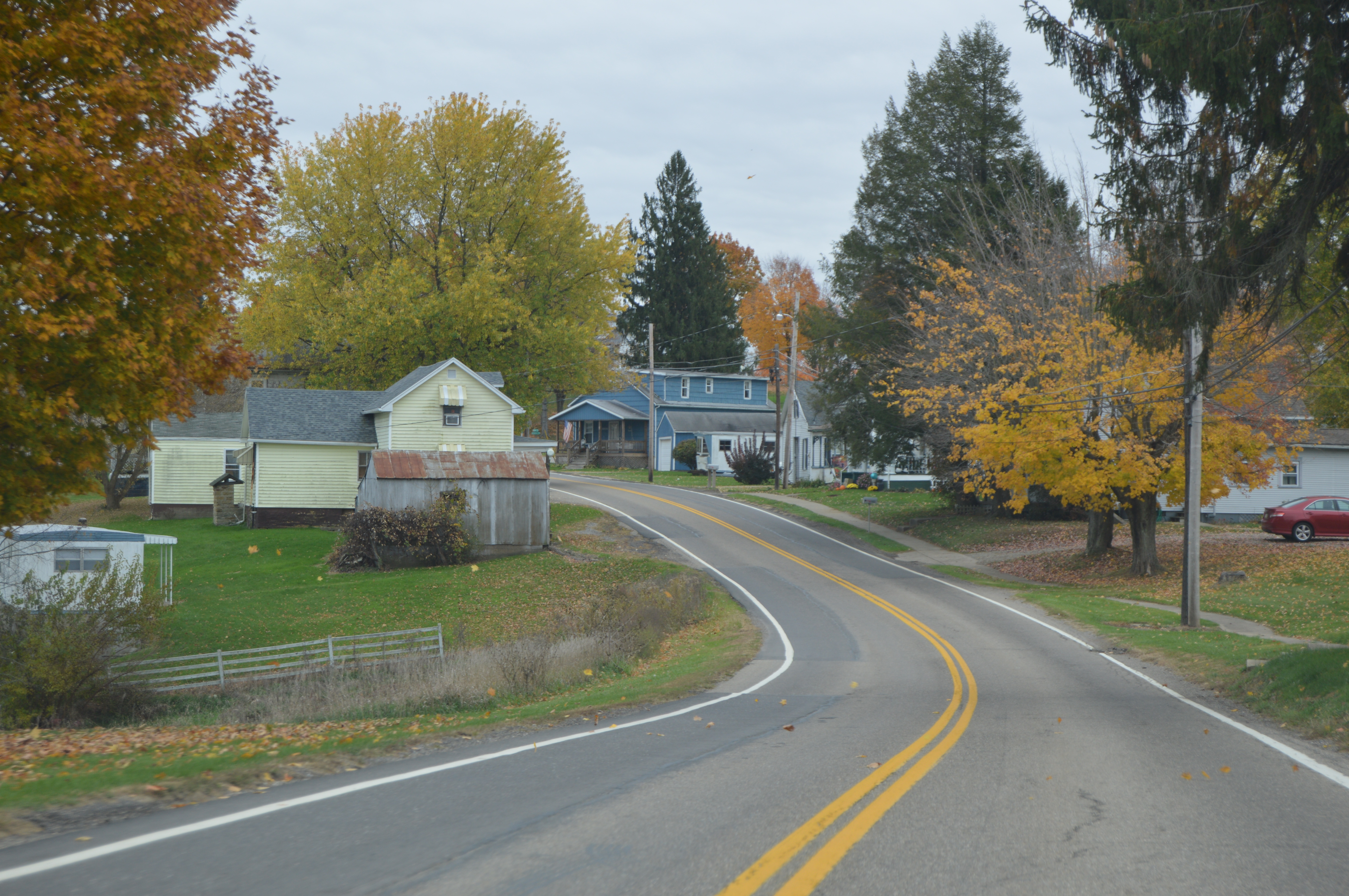 Looking southeastward on State Route 145 in northwestern Jerusalem, Ohio, United States.